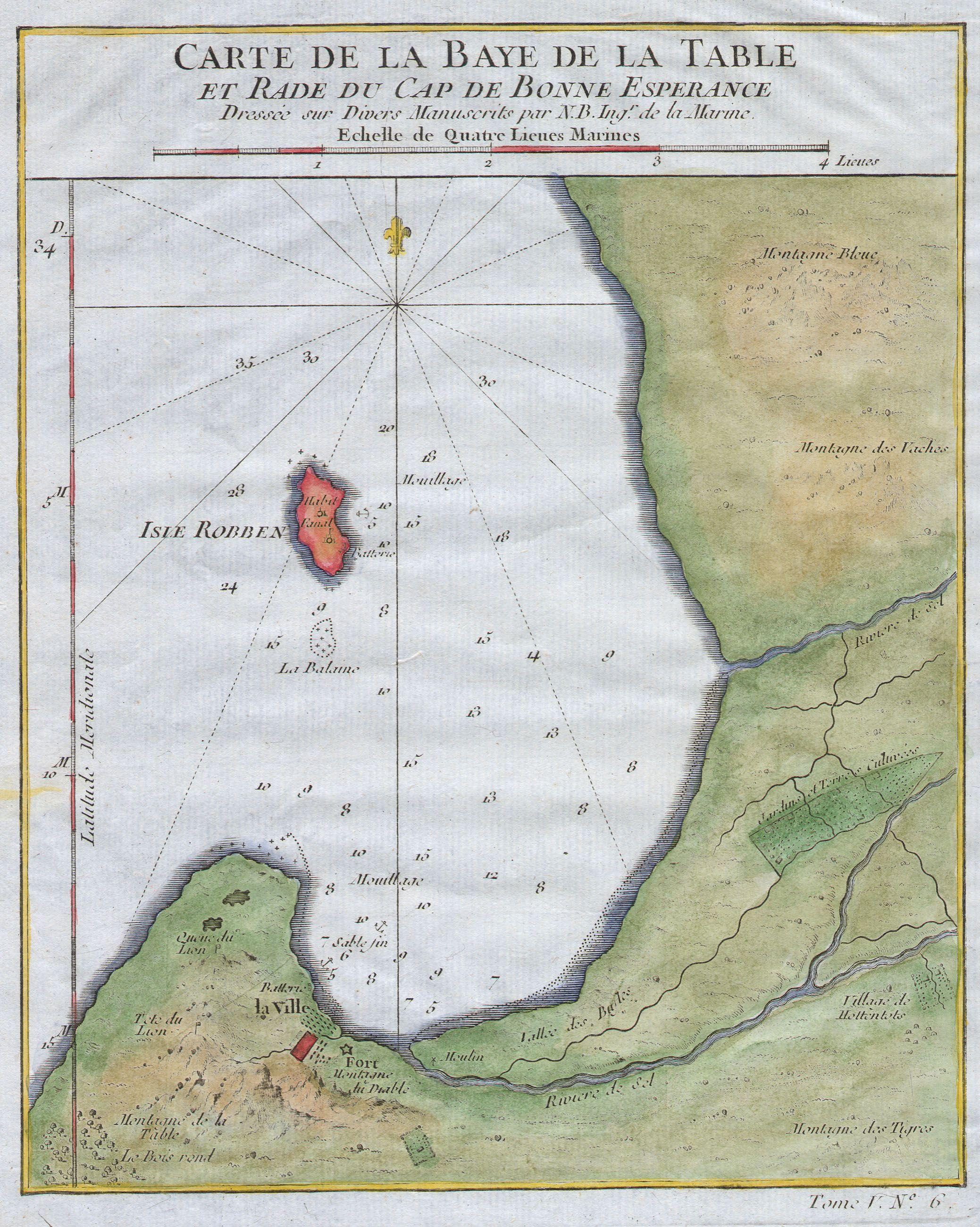 This hand colored map is a c. 1763 map of the Cape of Good Hope and Cape Town, South Africa. Attributed to French cartographer Jacques-Nicholas Bellin, this map was issued for the French edition of Provost’s Histoire des Voyages…. Beautifully rendered mountains and villages show the area in considerable detail. Shows the “Village of the Hottentots”, Blue Mountain, Cow Mountain, Table Mountain, The City of Cape Town itself, Tigerbergen, and many other features. Some oceanic depths are indicated. Of interest is also the Isle of Robben, located centrally on the map. Long a place of exile and punishment, this island prison had a reputation for brutality and cruelty. Today a museum honors the site of so much suffering.